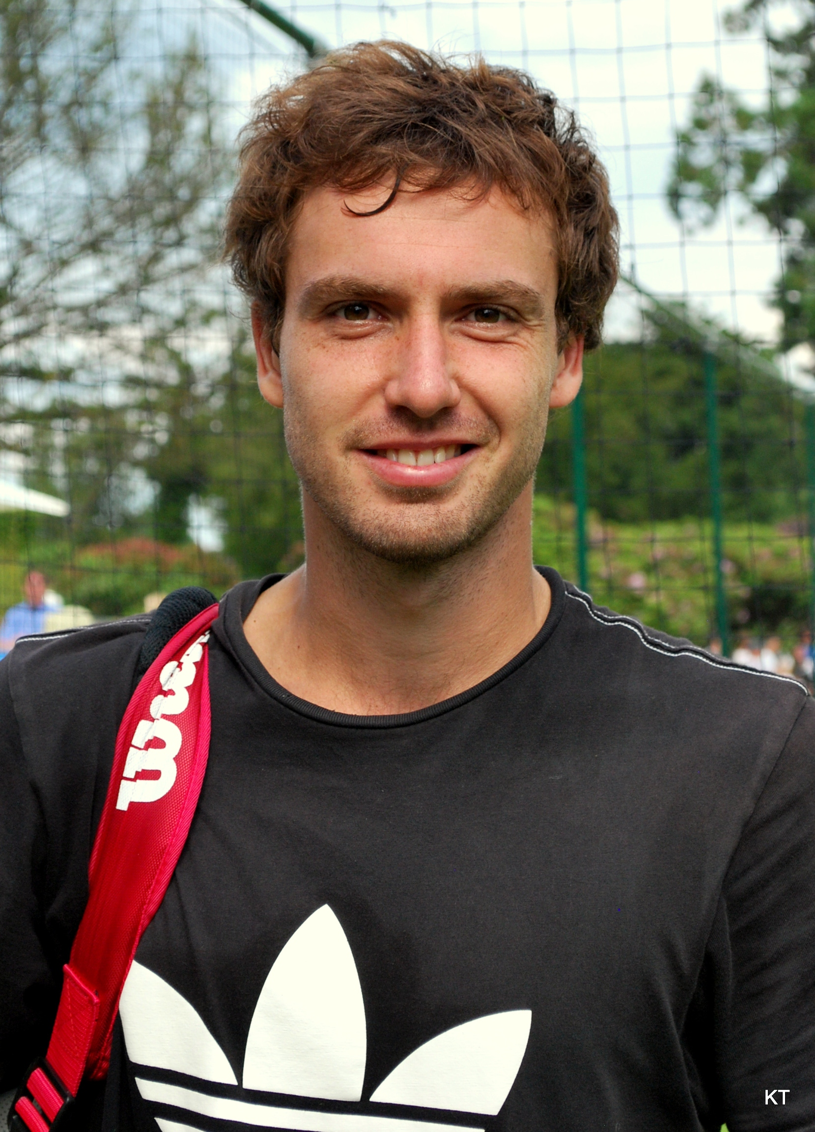 The Boodles, Stoke Park 2012.